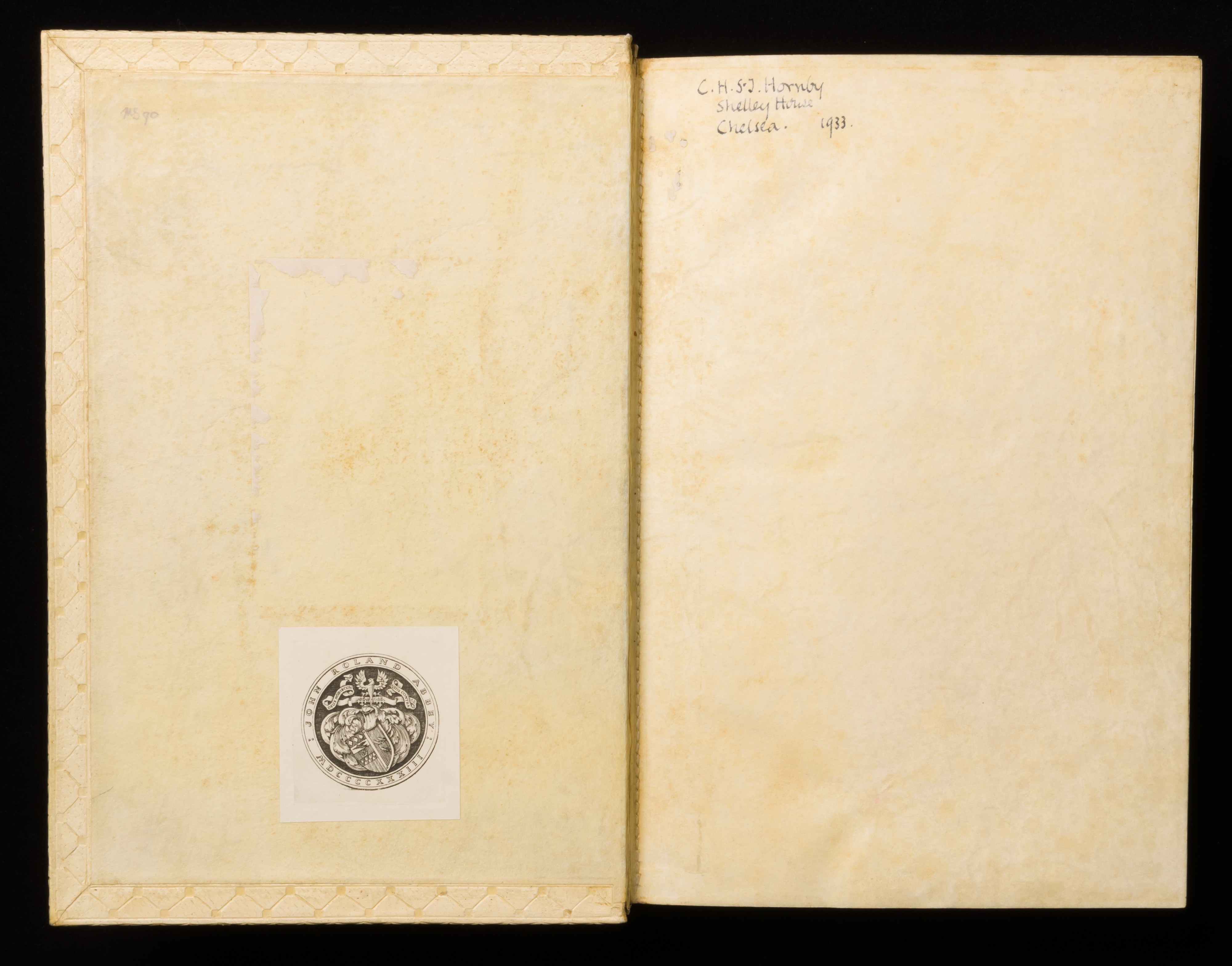 Sceau du "John Roland Abbey" ajouté en 1946